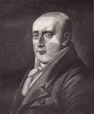 Ole Bernt Suhr